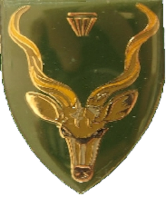 SADF era Barkley West Commando emblem